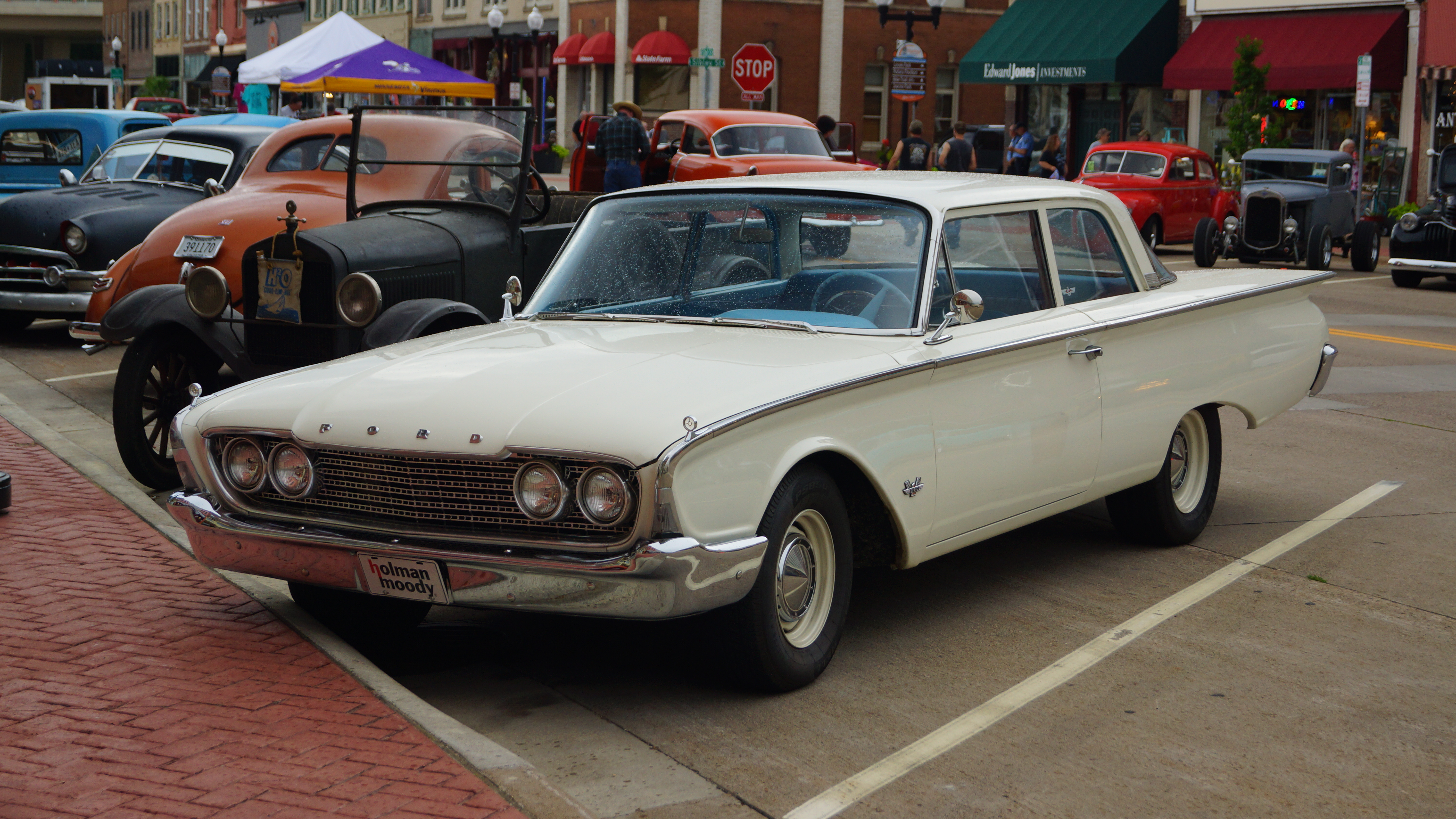 HISTORIC DOWNTOWN HASTINGS CRUISE-IN & CLASSIC CAR SHOW Hastings, Minnesota June 30, 2018 Click here for previous Hastings Cruise Night pictures Click here for more car pictures at my Flickr site. Or here for my Car Crazy Tumblr site. Or on Twitter @DVS1mn.